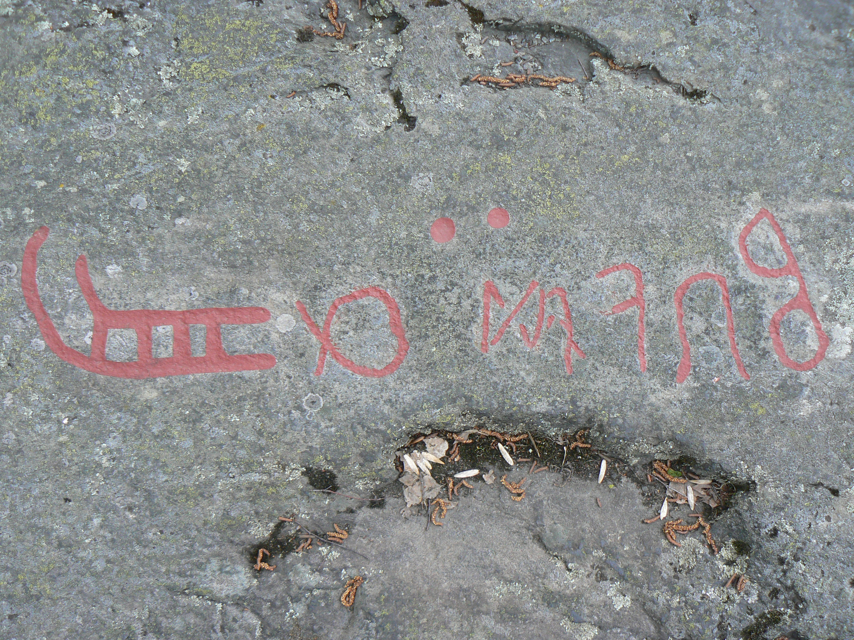 Östergötlands runinskrifter KJ54, a runic inscription from the 3rd or 4th century in Norrköping, Sweden.